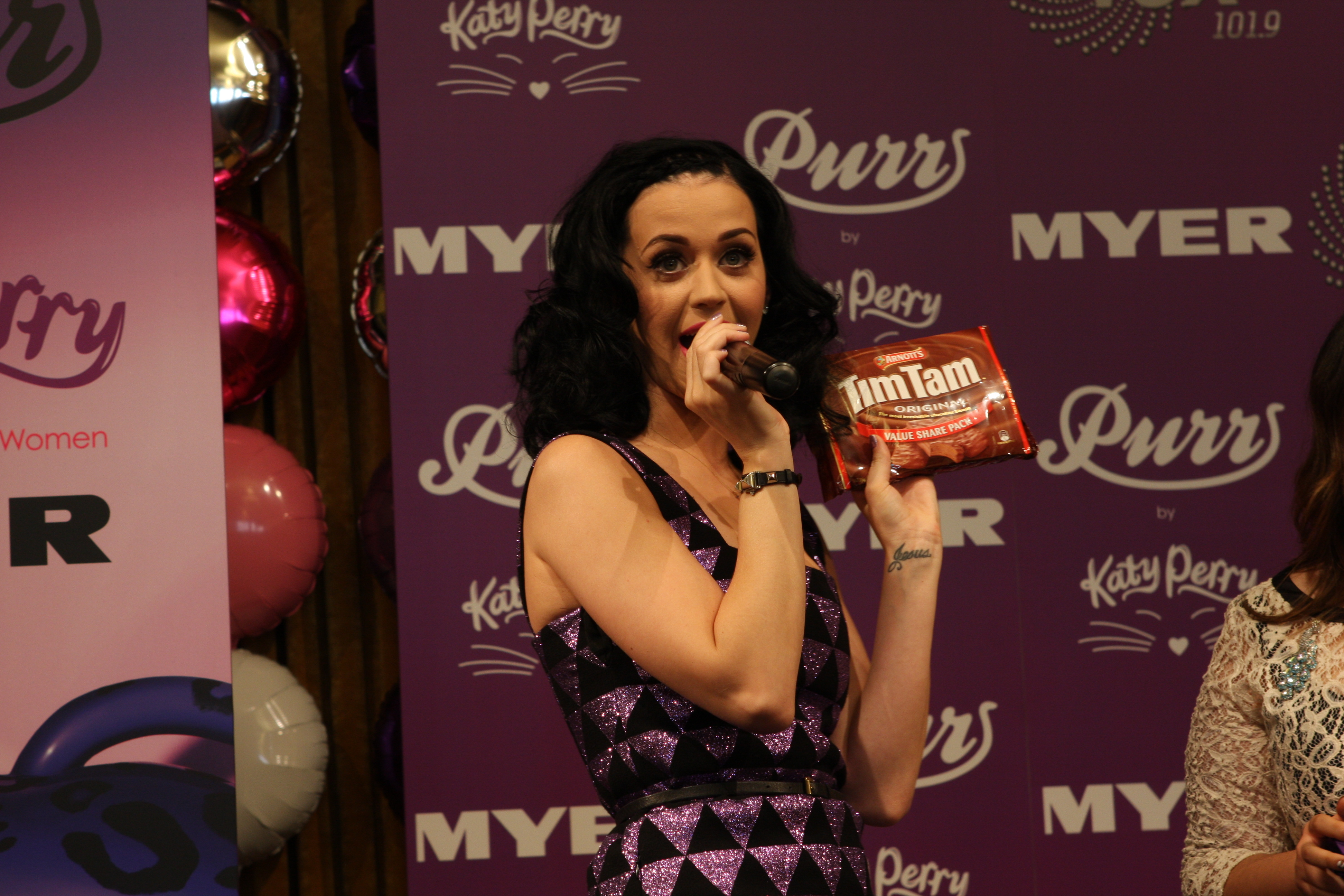 Katy Perry likes Tim Tam